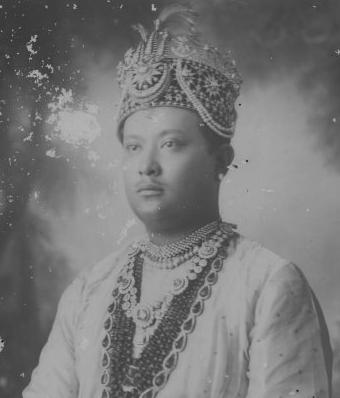 Photograph of Maharaja Bir Bikram Kishore Manikya , King of tripura from 1923 to 1947